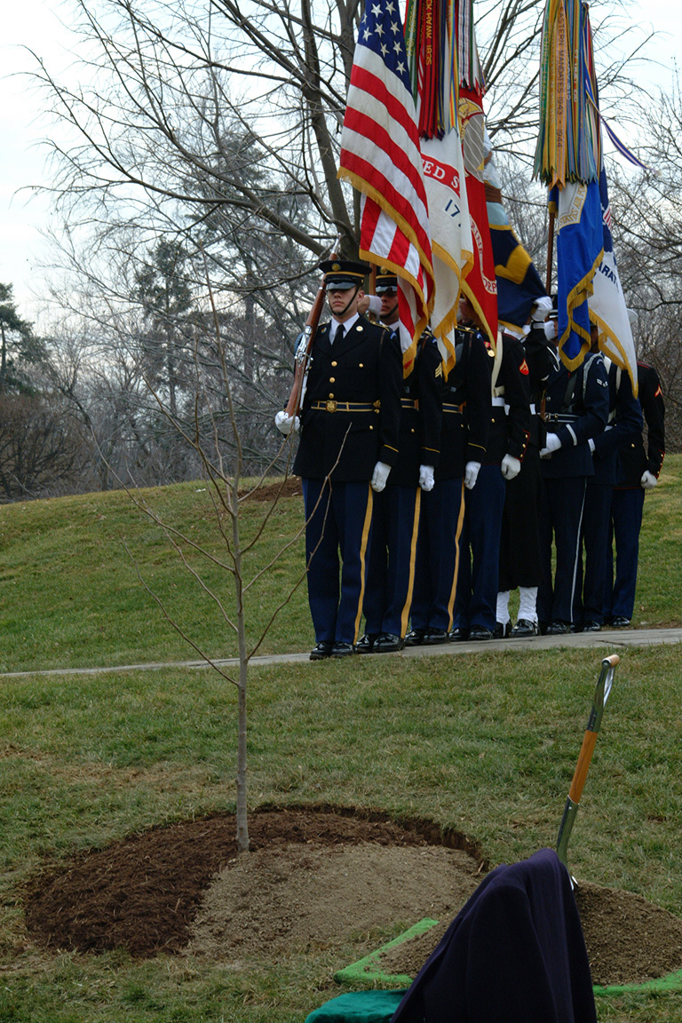 On Feb. 9, 2005, the 34th anniversary of the Apollo 14 splashdown, a second-generation "Moon tree" (sycamore) was dedicated at Arlington National Cemetery "in honor of Apollo astronaut Stuart A. Roosa and the other distinguished Astronauts who have departed our presence here on earth." More information